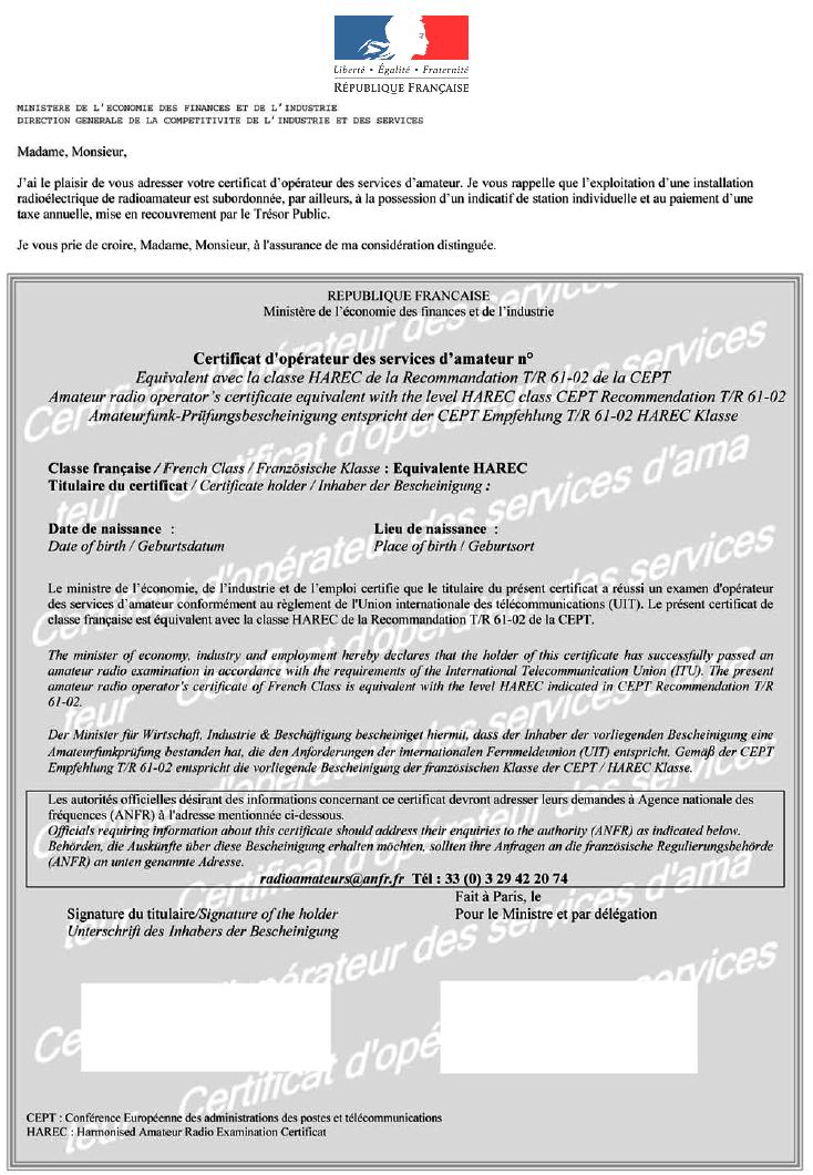 Certificate amateur radio (CEPT and IARP)